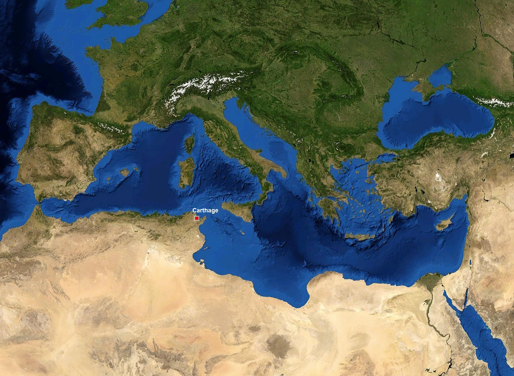 Carthago's location in the middle of Mediterrean Sea